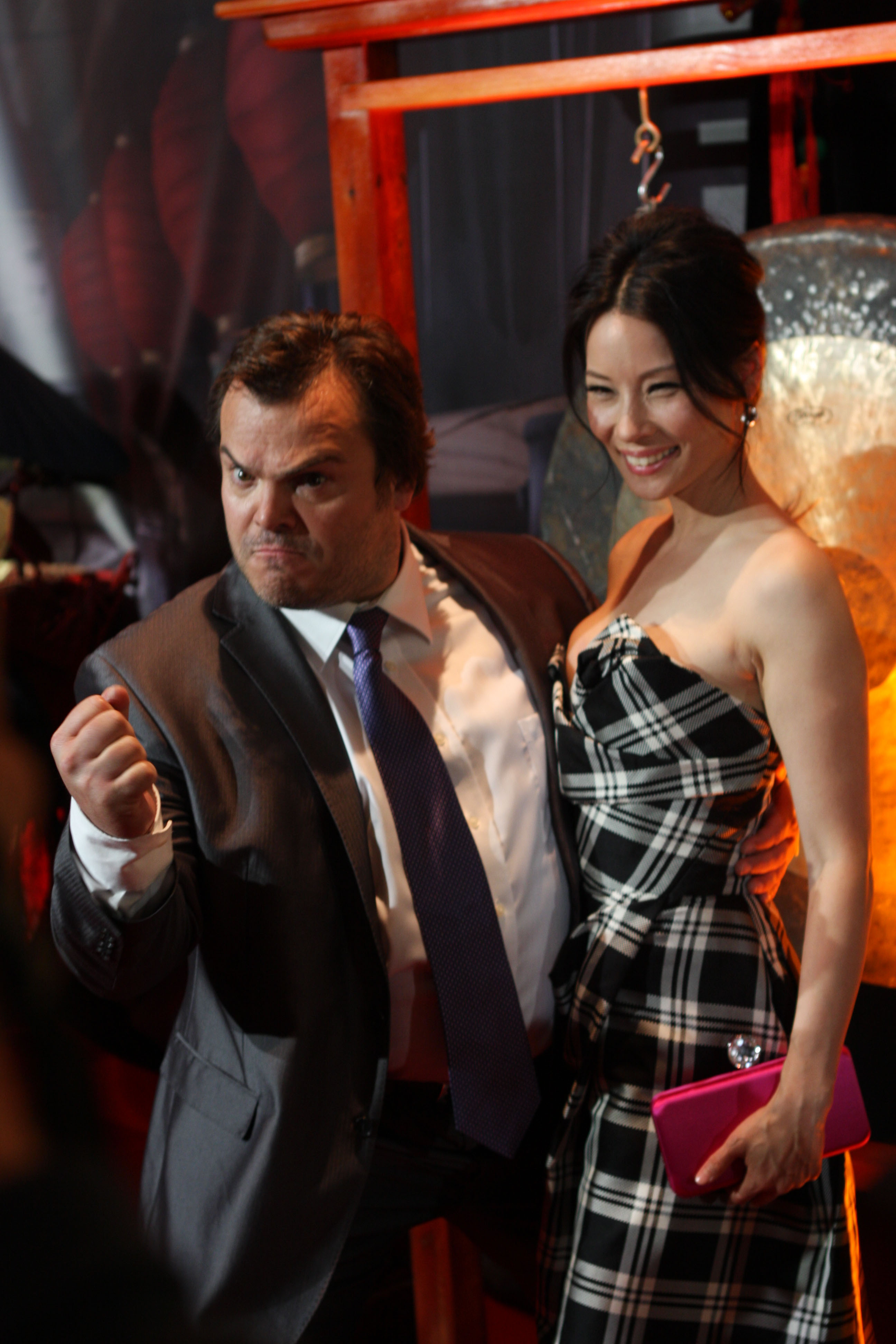 Jack Black and Lucy Liu at the "Kung Fu Panda 2" premiere in Sydney